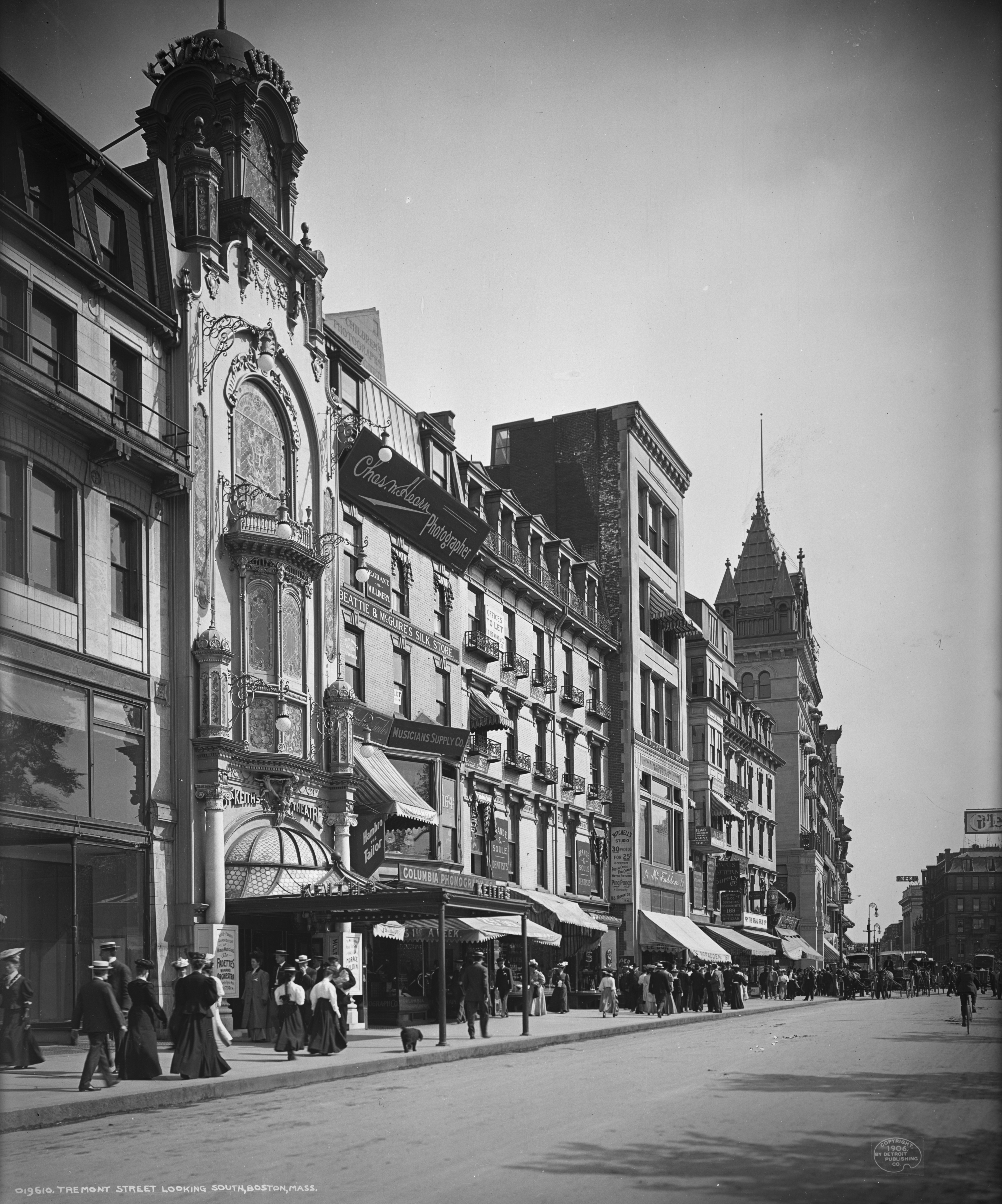 Detail of: Title: Tremont Street, looking south, Boston, Mass. Notes: Jacket title: Tremont St. Bldg., looking south from Keith's Theatre ... Date Created/Published: c1906. Medium: 1 transparency : glass ; 8 x 10 in. Format: Silver gelatin glass transparencies. Reproduction Number: LC-D4-19610 (b&w glass transparency) LC-USZ62-133476 (b&w film copy neg.). Call Number: LC-D4-19610 [P&P]. Detroit Publishing Co. no. 019610. Repository: Library of Congress Prints and Photographs Division Washington, D.C. 20540 USA. Part of: Detroit Publishing Company Photograph Collection